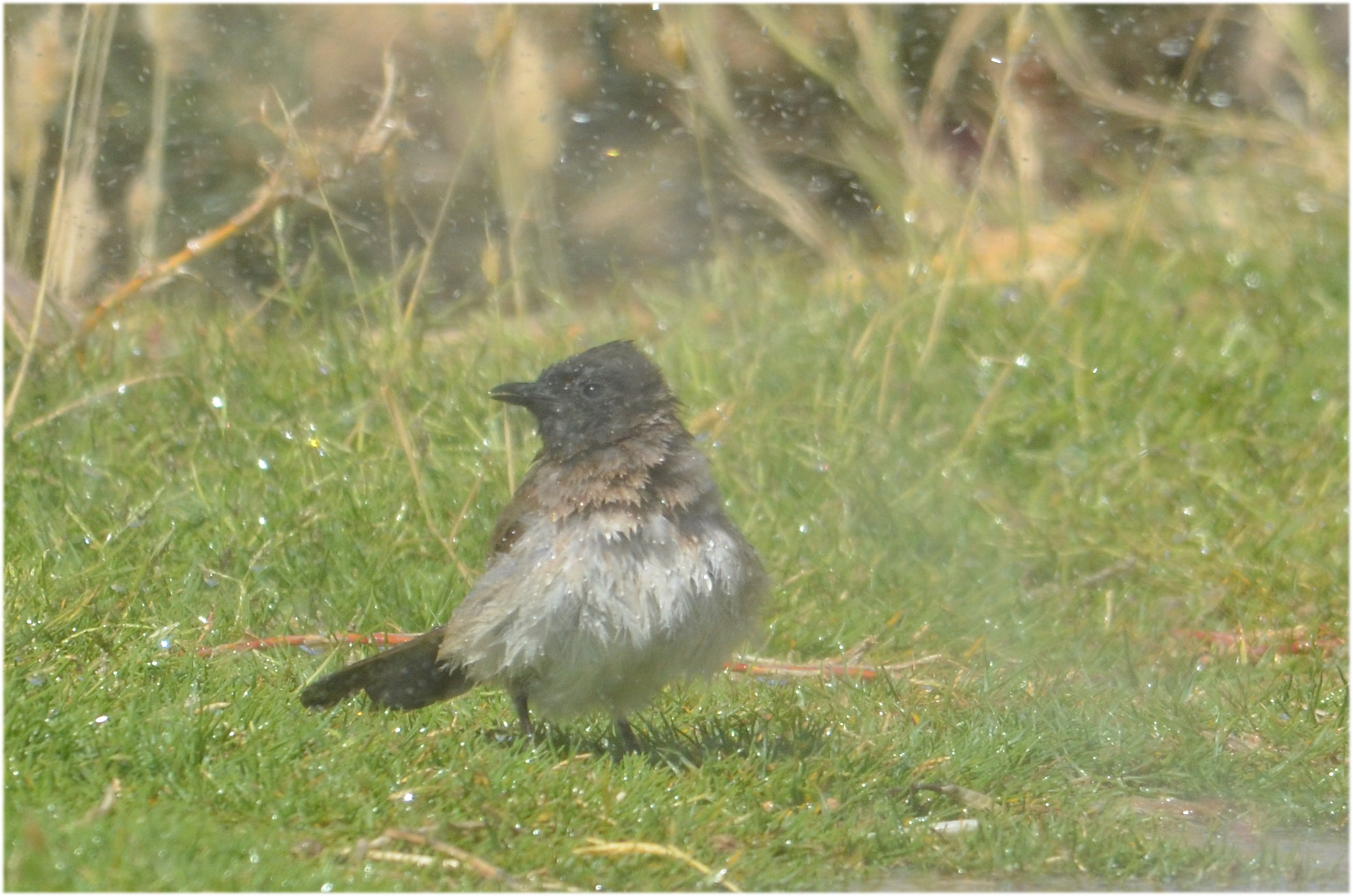 Common bulbul